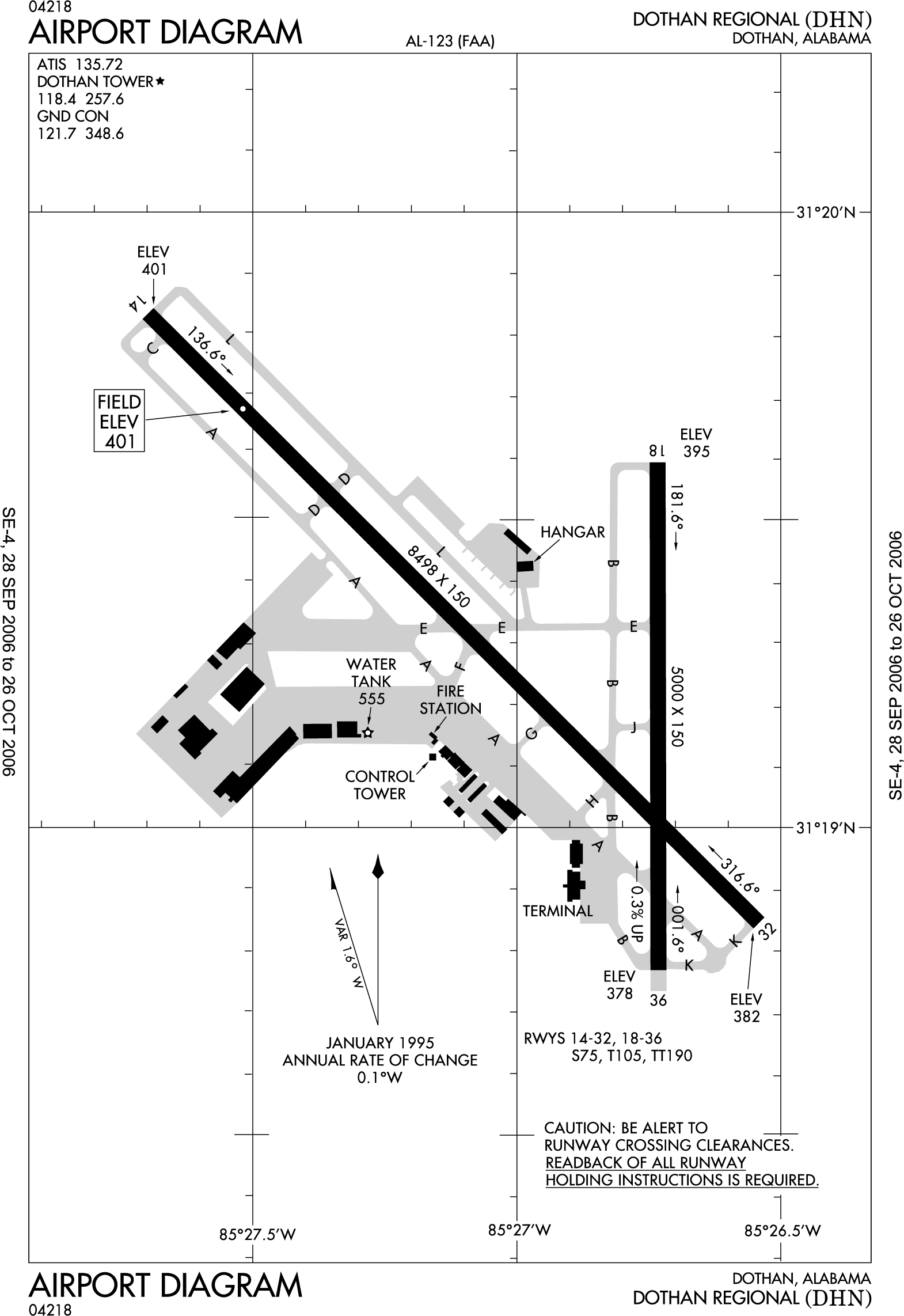 FAA diagram for Dothan Regional Airport (FAA: DHN, ICAO: KDHN) in Dothan, Alabama, United States.